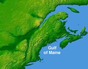 Gulf of Maine (USA) - map cropped from a publication by NASA